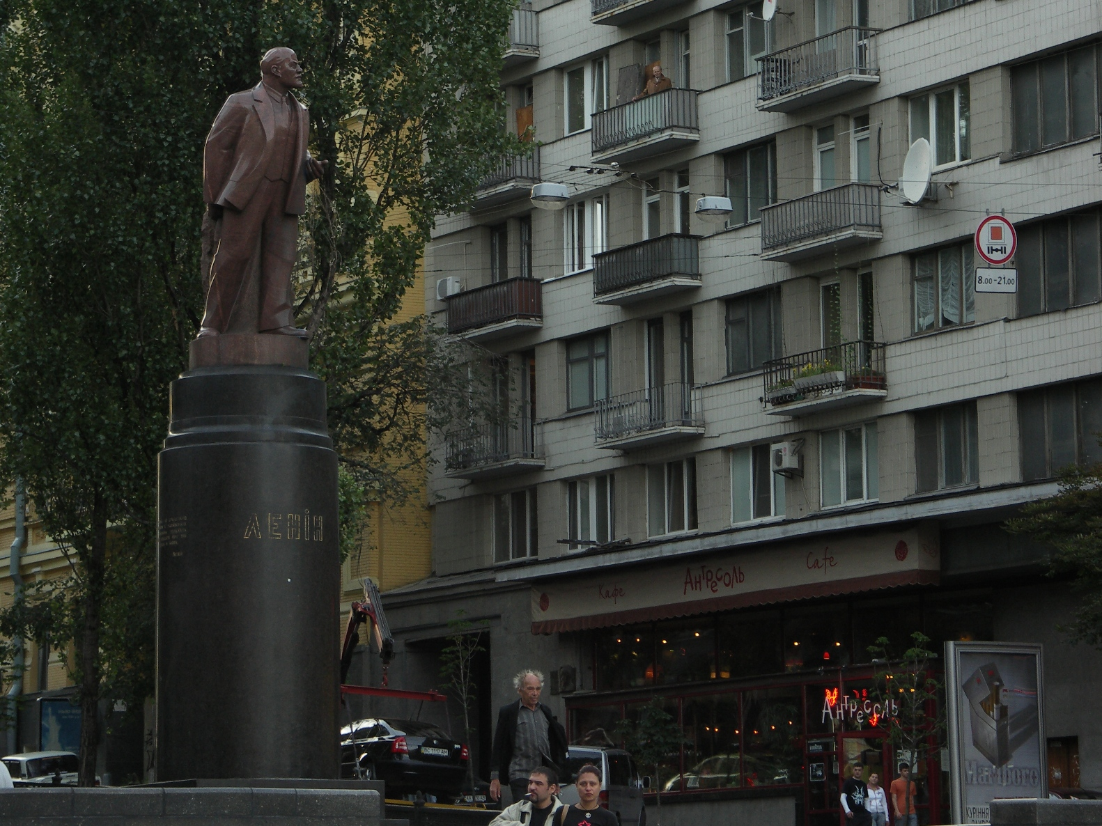 Statue of Lenin in central Kiev. Taken by on 1 July 2006.